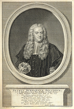 Pieter Burman the Younger, Dutch classicist